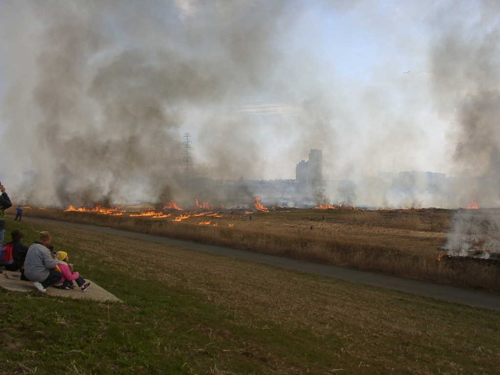 Prescribed burning in Udono for maintaining a healthy reed bed (Takatsuki-shi, Osaka, Japan).